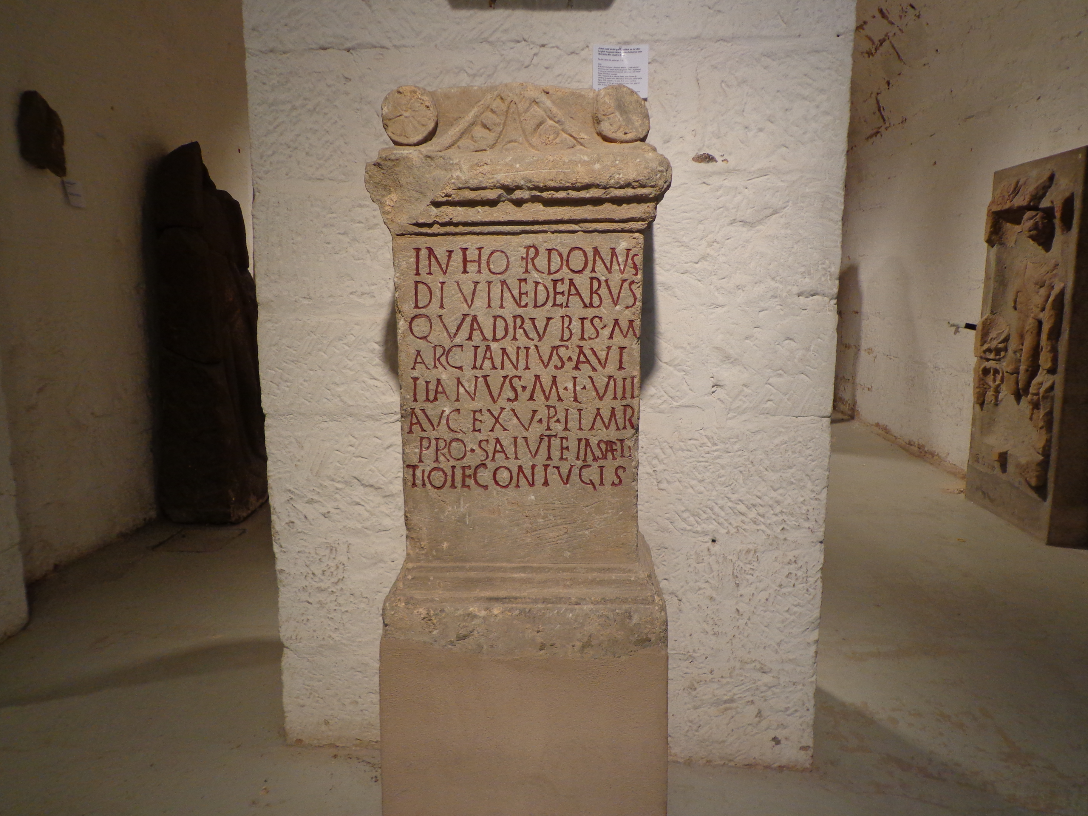 Collections of the museum of Saverne, Alsace, France